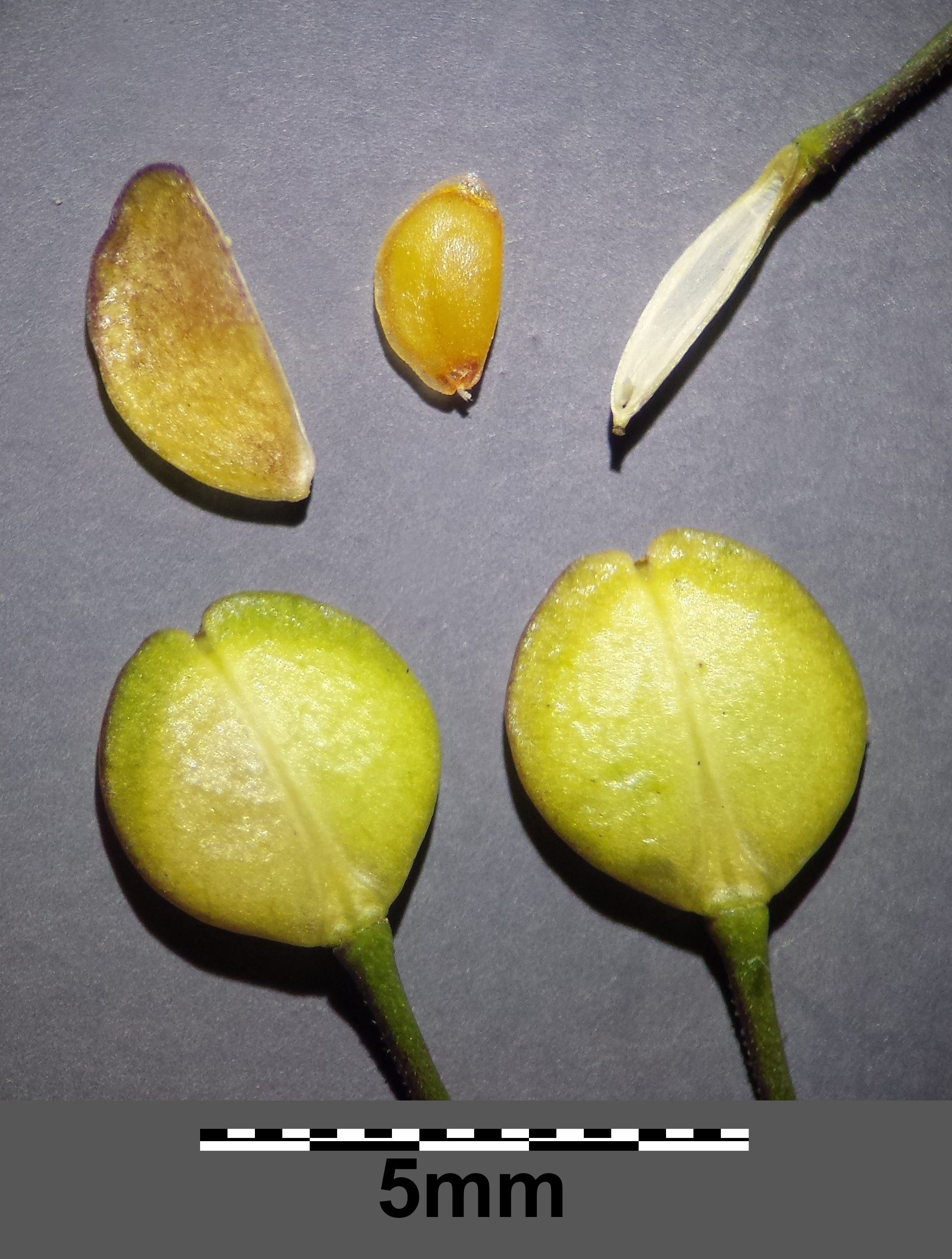 Fruits with seed Taxonym: Lepidium virginicum (subsp. virginicum) ss Fischer et al. EfÖLS 2008 ISBN 978-3-85474-187-9 Location: Jedlersdorf rail station, Vienna-Floridsdorf - ca. 160 m a.s.l. Habitat: sandy area